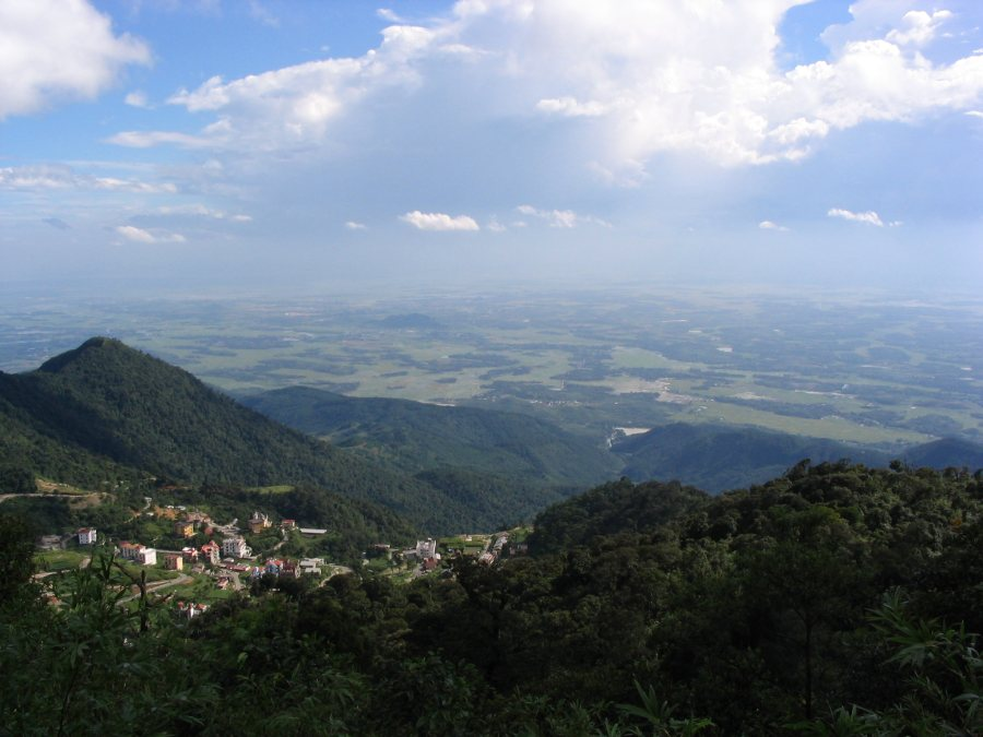 Description: Tam Dao. Source: Camille Harang